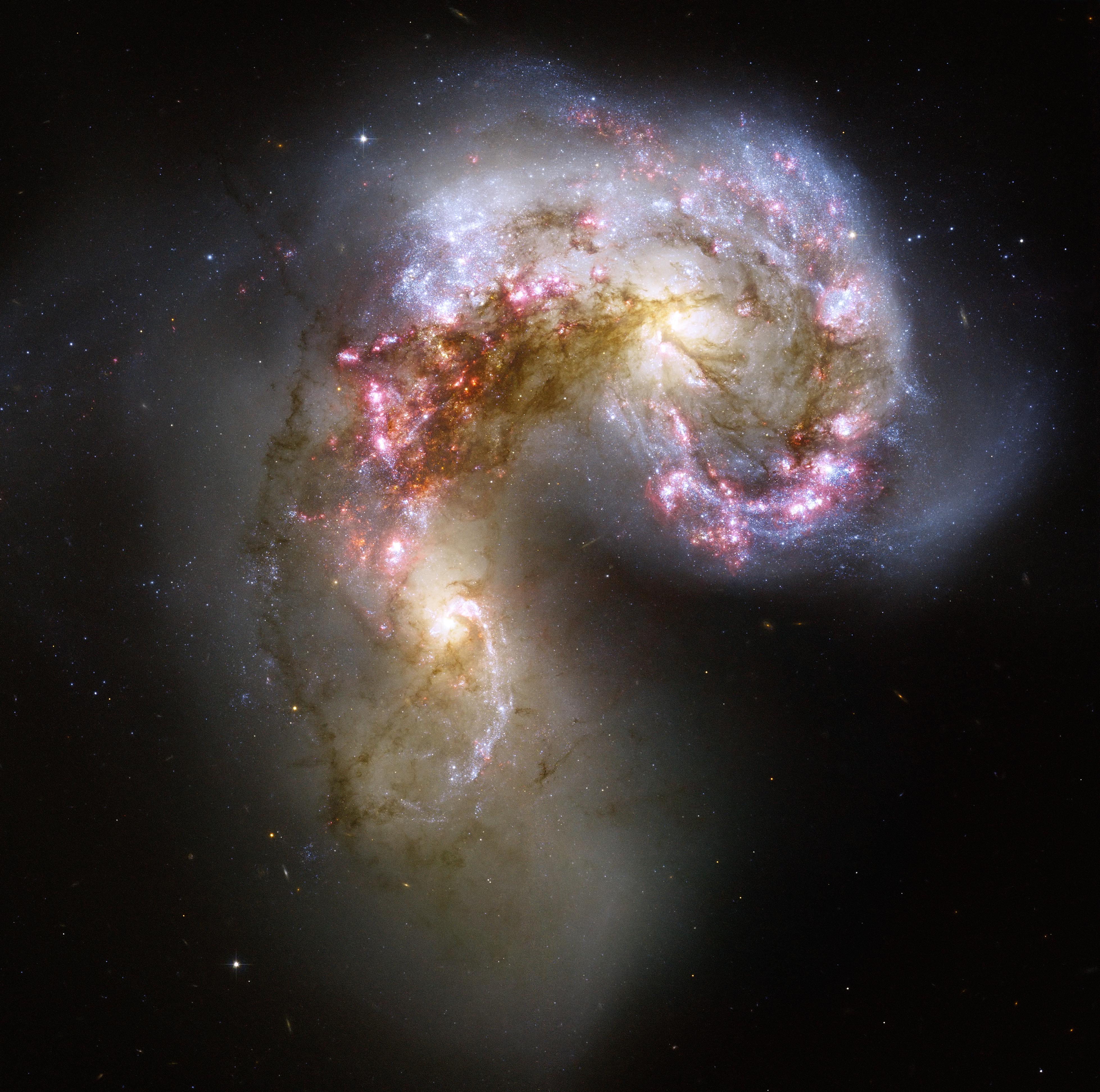 Original caption from NASA: “This NASA Hubble Space Telescope image of the Antennae galaxies (NGC 4038 & 4039) is the sharpest yet of this merging pair of galaxies. During the course of the collision, billions of stars will be formed. The brightest and most compact of these star birth regions are called super star clusters.” “ The two spiral galaxies started to interact a few hundred million years ago, making the Antennae galaxies one of the nearest and youngest examples of a pair of colliding galaxies. Nearly half of the faint objects in the Antennae image are young clusters containing tens of thousands of stars. The orange blobs to the left and right of image center are the two cores of the original galaxies and consist mainly of old stars criss-crossed by filaments of dust, which appear brown in the image. The two galaxies are dotted with brilliant blue star-forming regions surrounded by glowing hydrogen gas, appearing in the image in pink.”